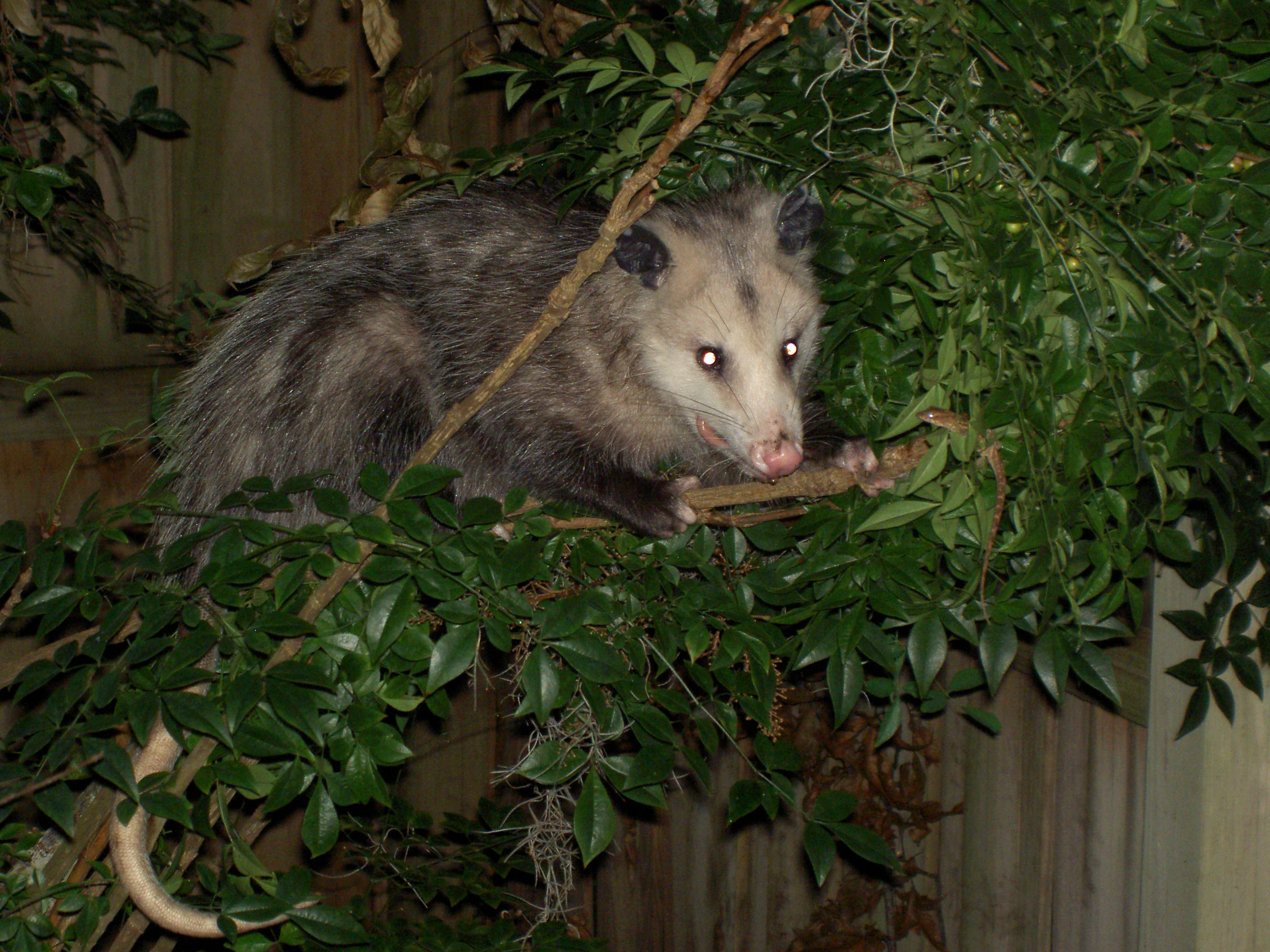 possum and lizard in bush at night